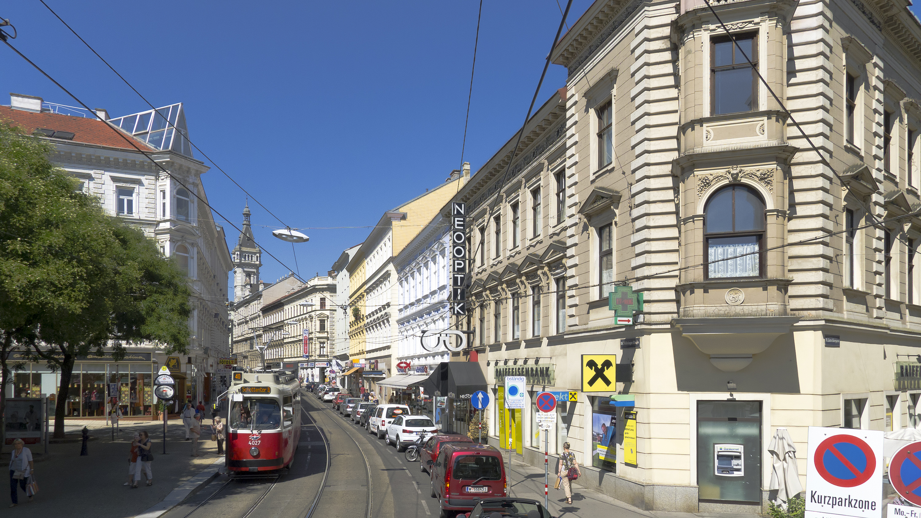 Währinger Straße in Wien 18 beim Gertrudplatz Richtung Westen